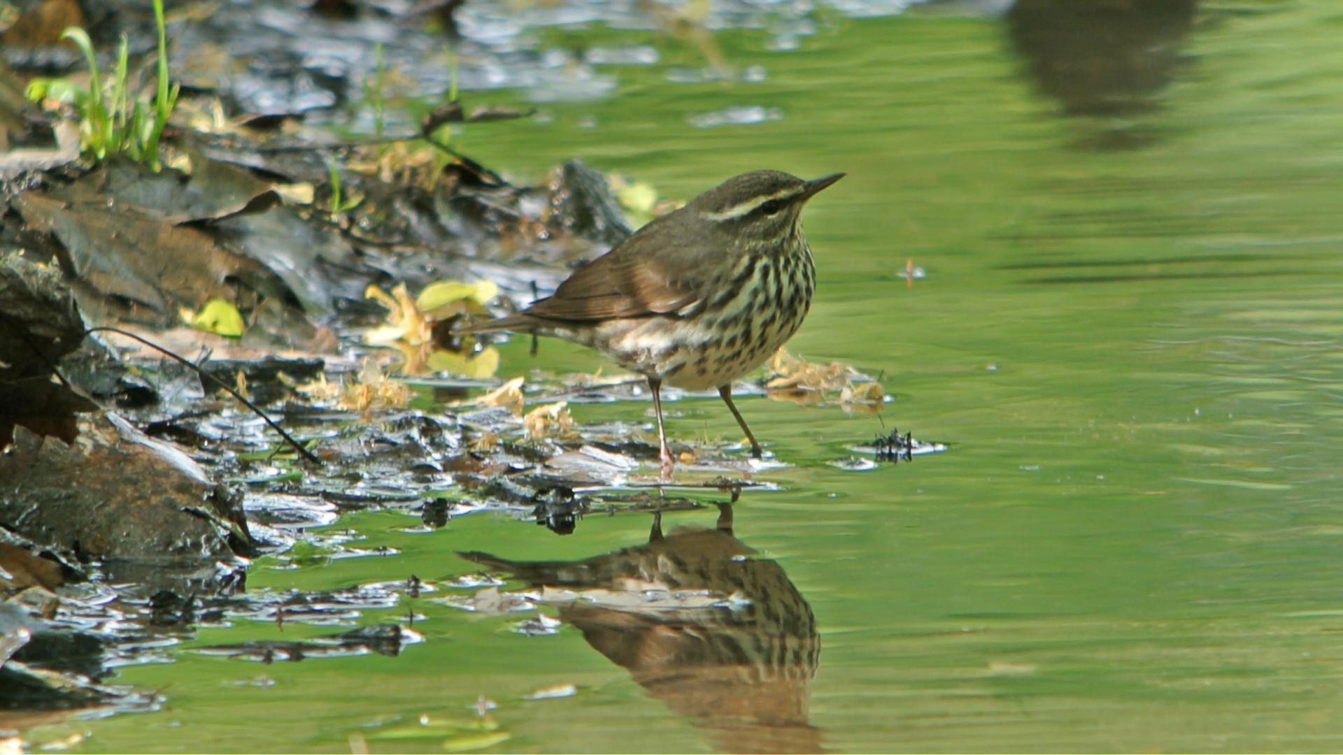 Tower Grove Park in St. Louis Missouri on 4/21/12